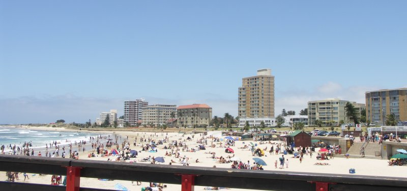 Hobie Beach, Port Elizabeth (South Africa).